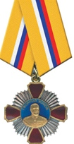 Order of Zhukov (Russia, 2010)